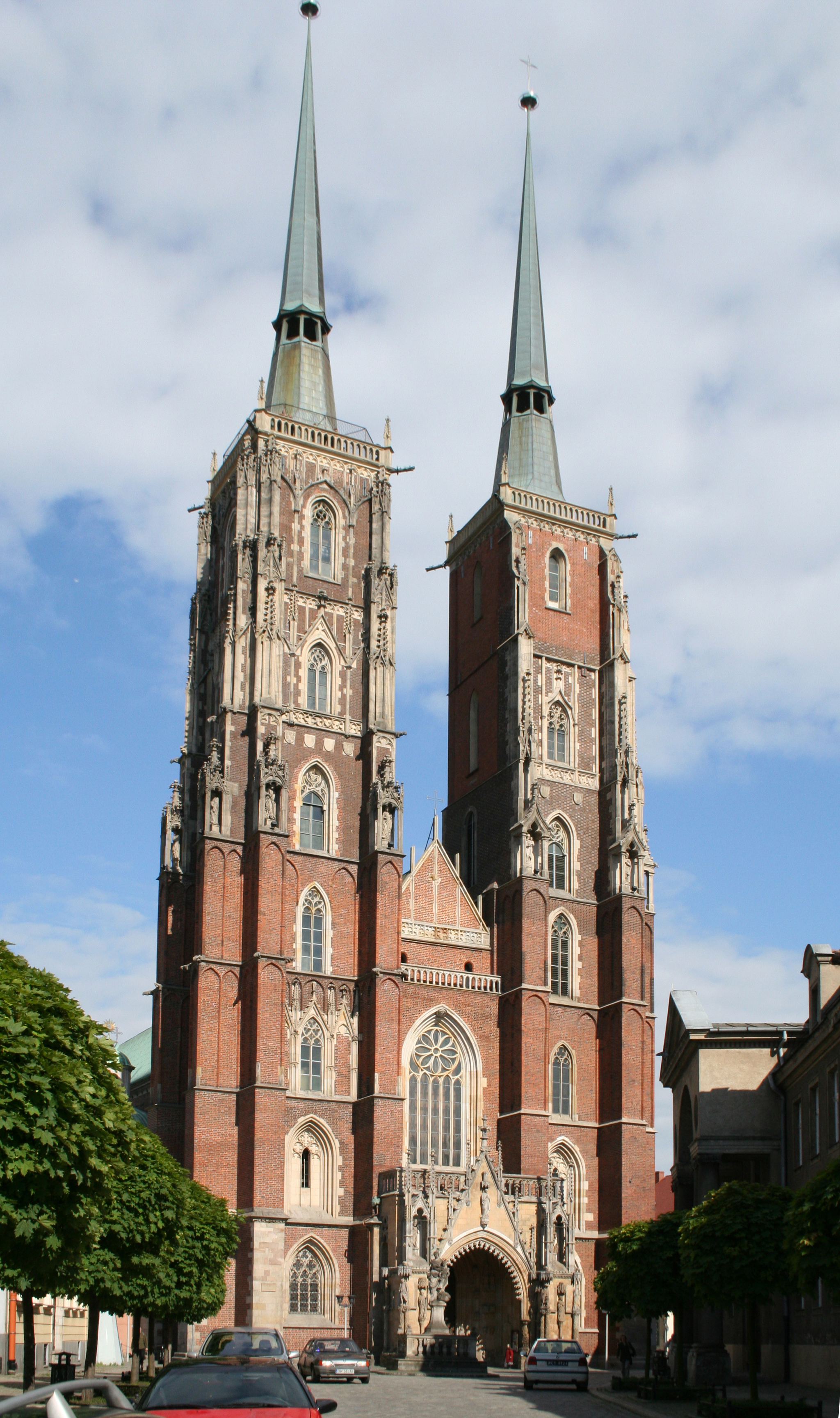 Poland, Wroclaw, Archicathedral